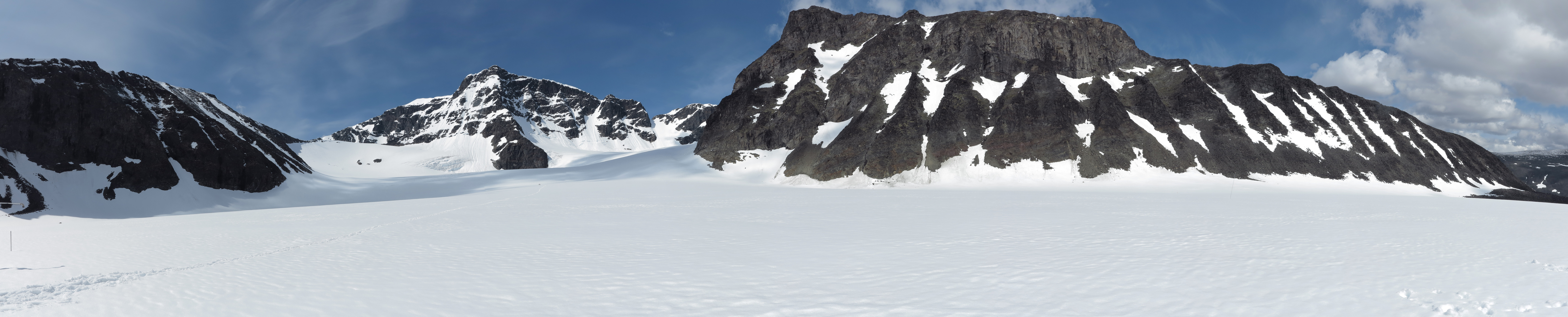 Panorama taken on the center of Storglaciären, at approximately 1500 meters above the sea